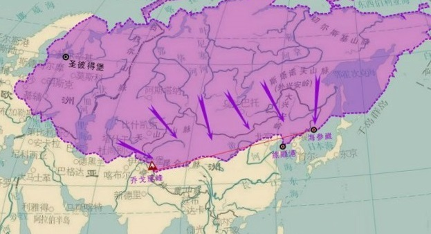 Map of Russian Empire with "Yellow Russia" included (Northern China)